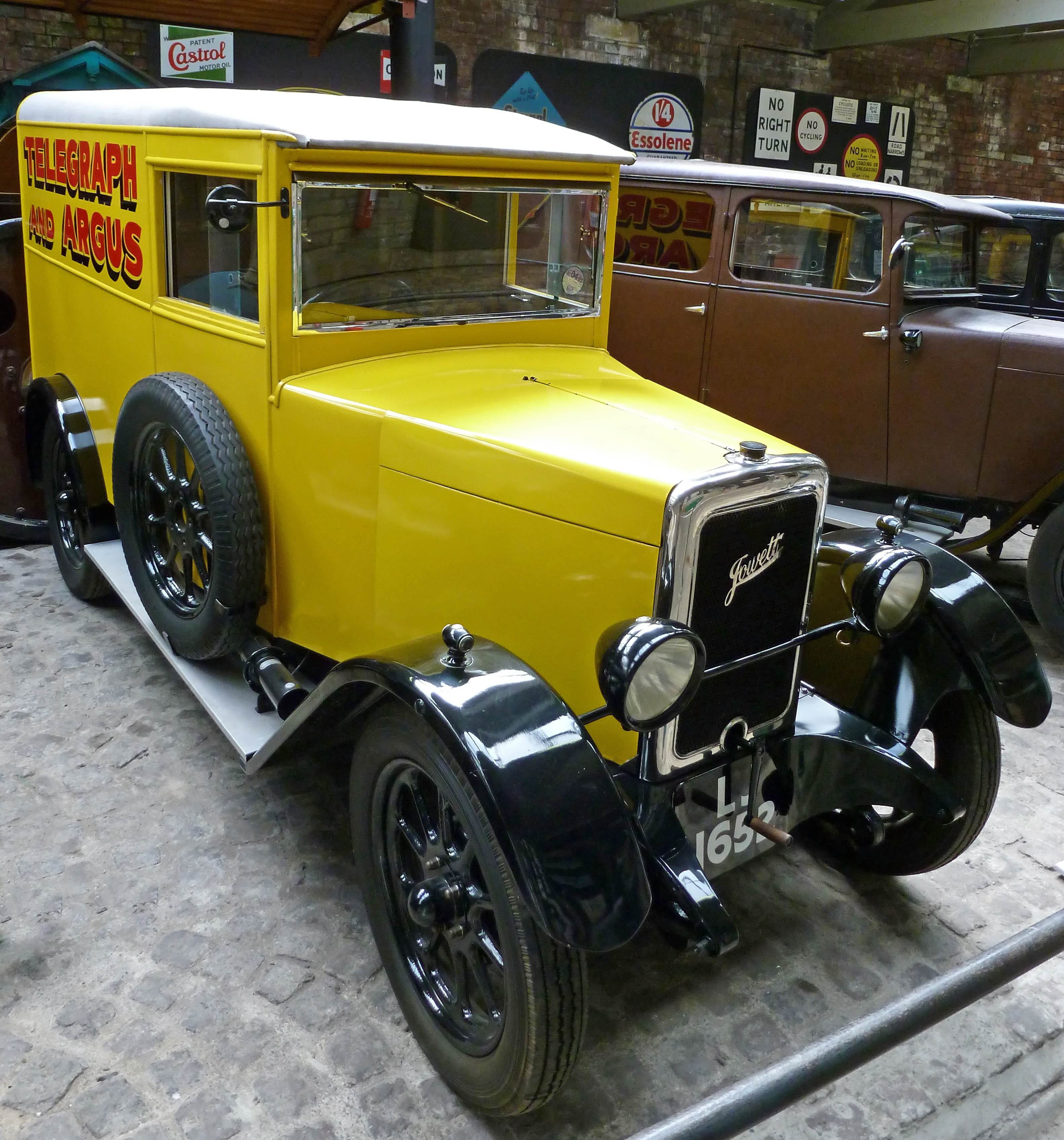 1929 Bradford 7/17 hp long wheelbase commercial van LJ1652 at the Bradford Industrial Museum